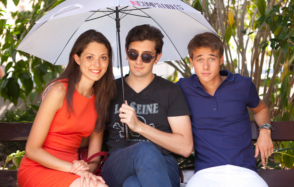 Incompatibles un film de Paolo Cedolin Petrini